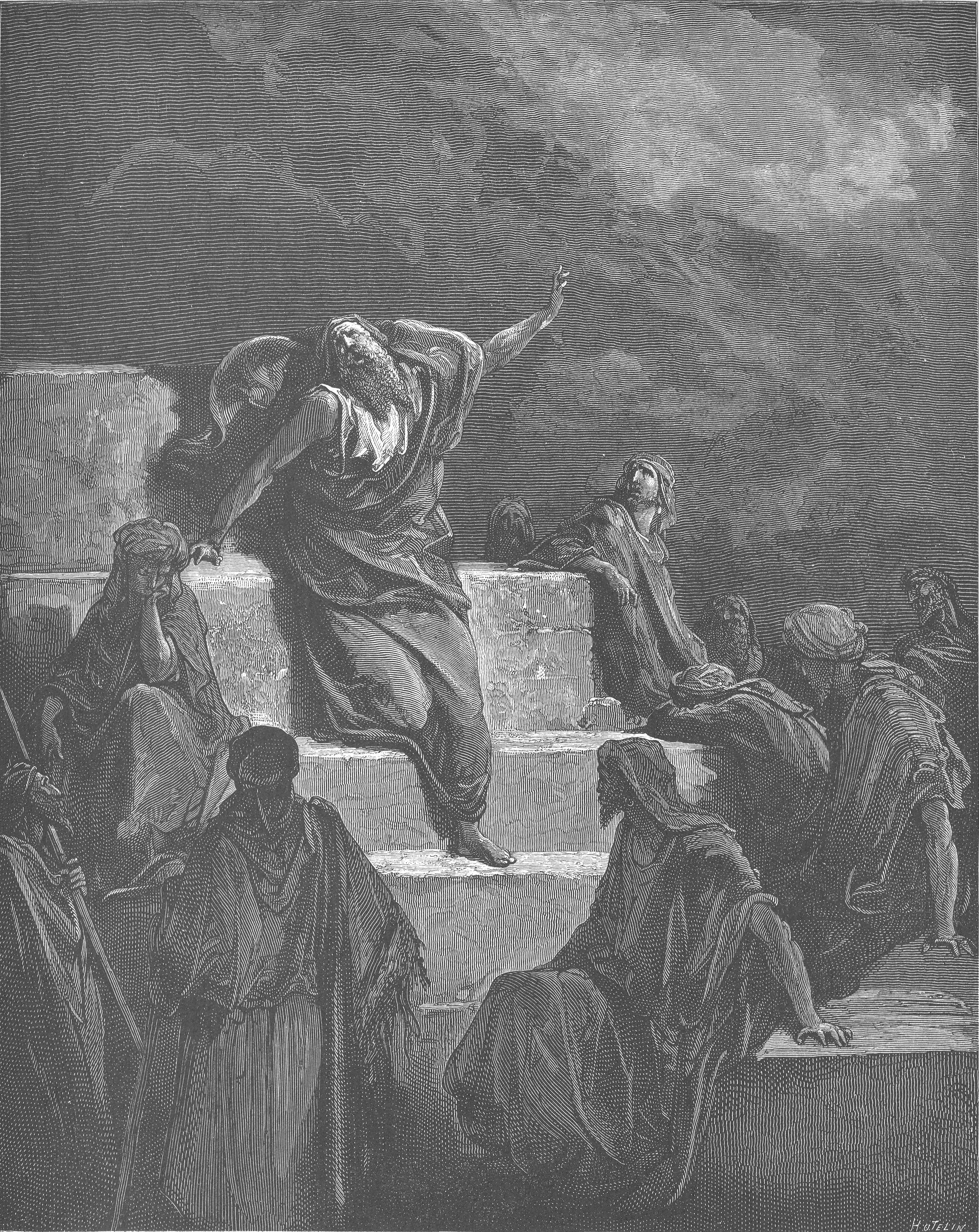 Prophet Jeremiah